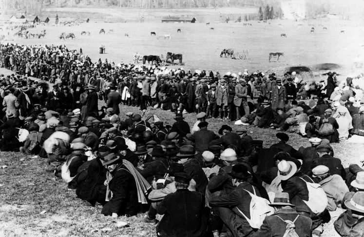 1918 Finnish Civil War: Captured Reds in the Fellman concentration camp after the Battle of Lahti.